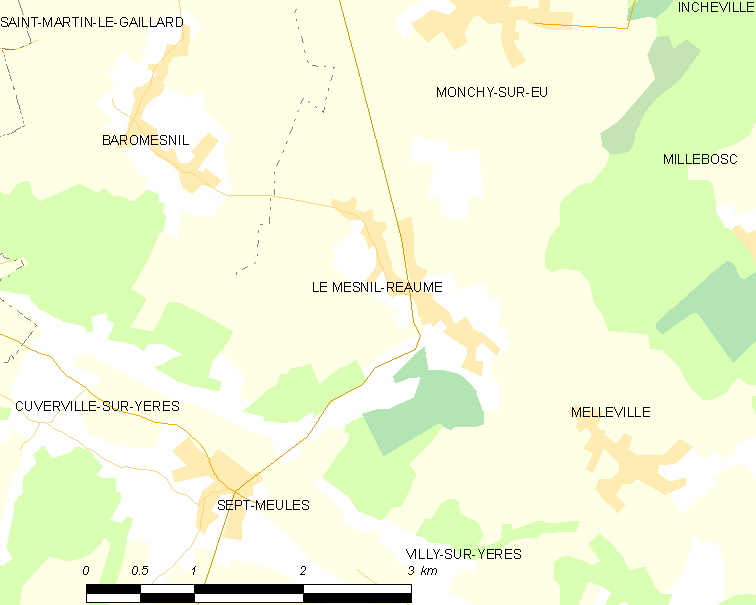 Map of French municipality Le Mesnil-Réaume